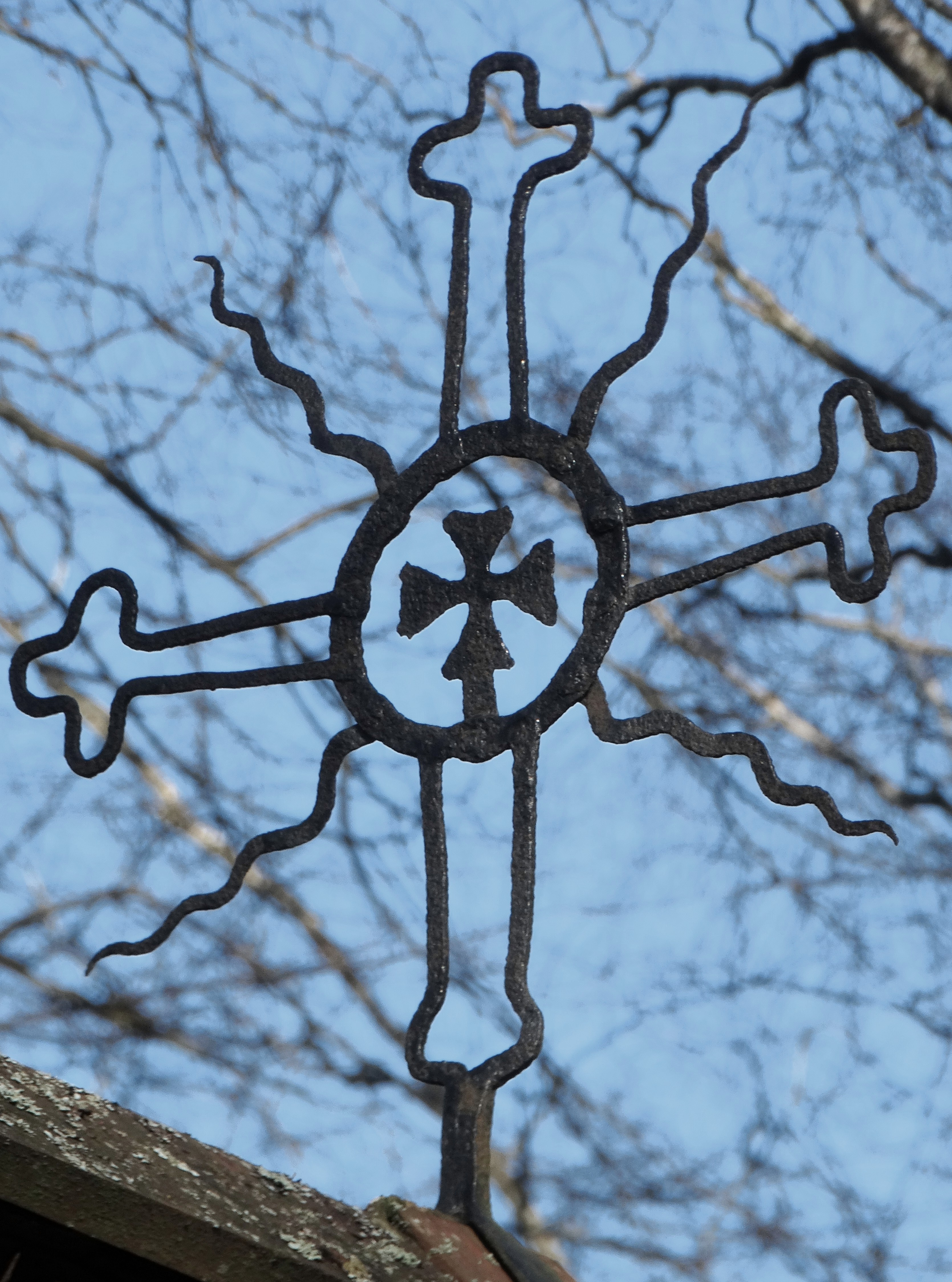 Žvaginiai hillfort. chapel, Klaipėda District, Lithuania